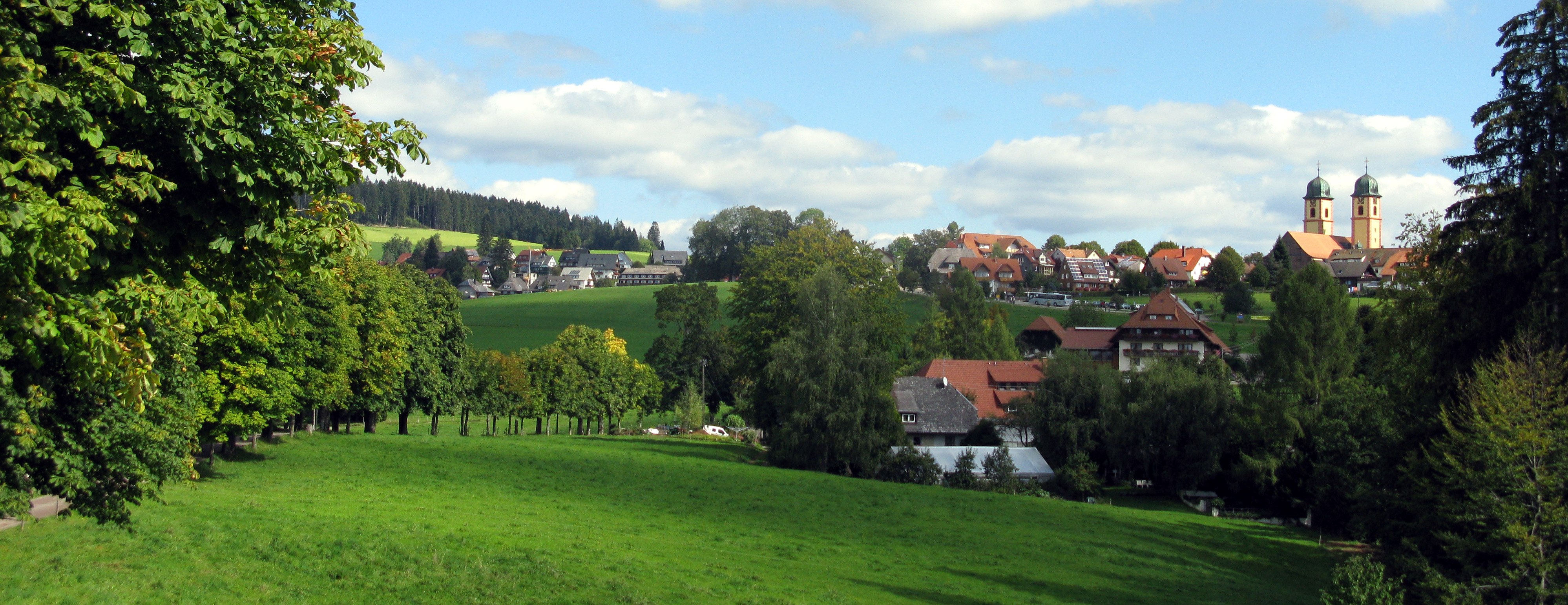 View from the Ohmenkapelle to St. Märgen